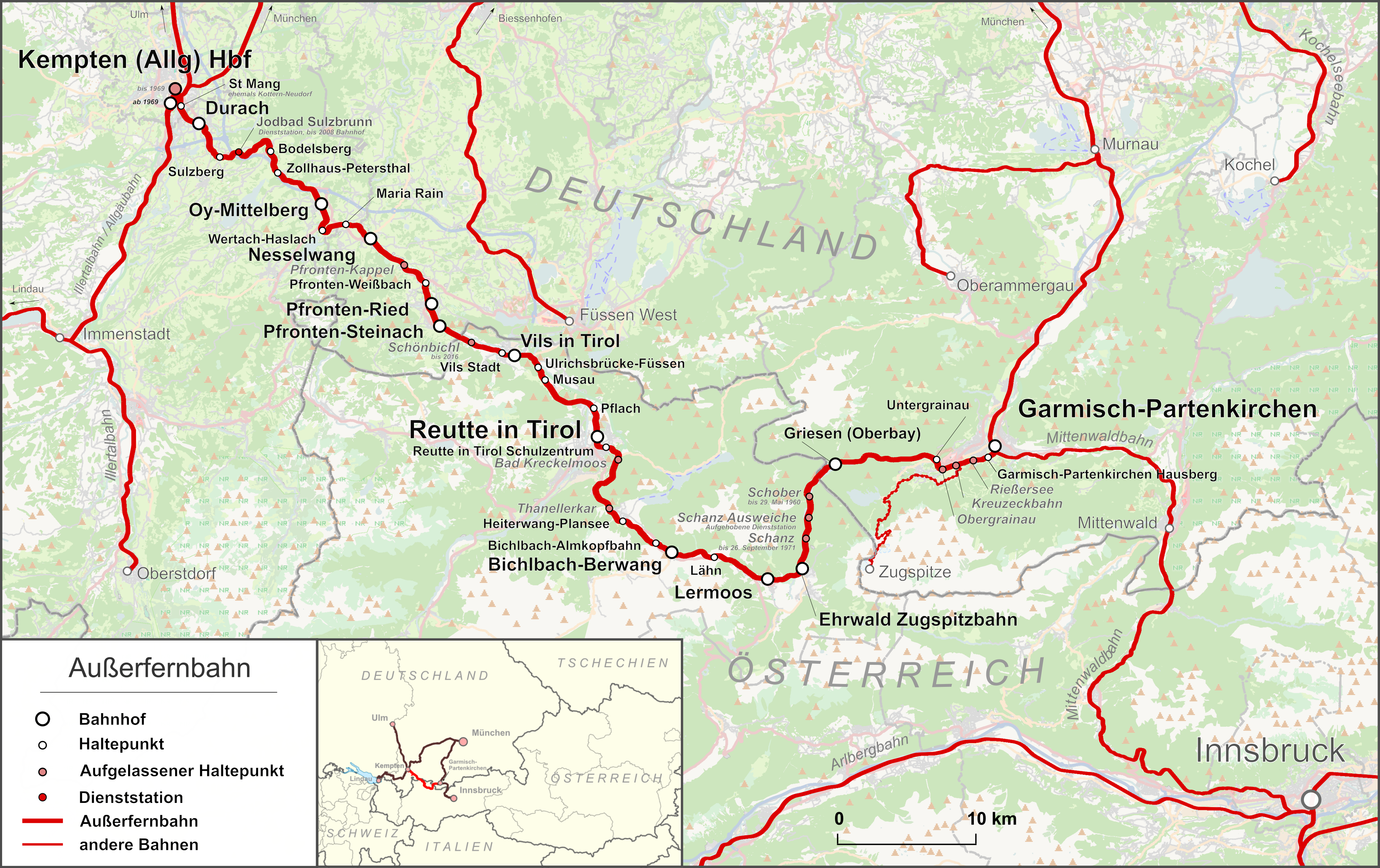 Map of the Ausserfern Railway in Bavaria, Germany and Tirol, Austria